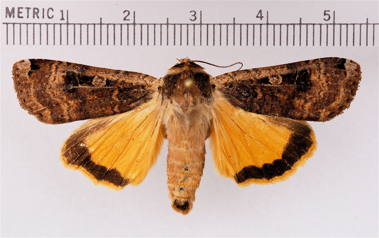 Adult Moth